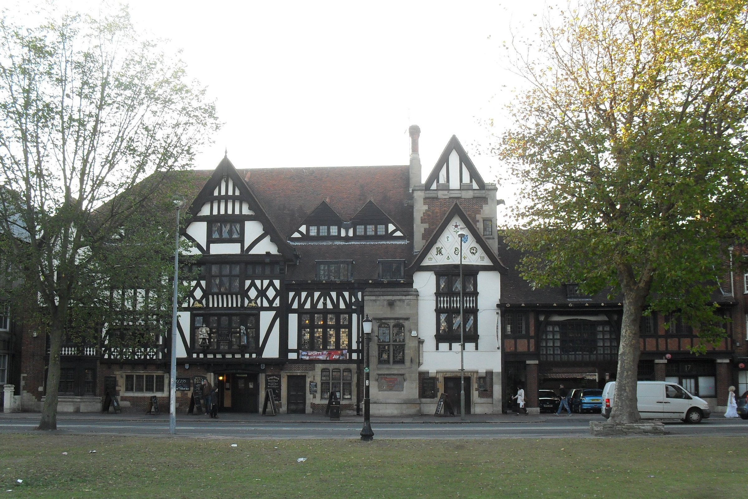 The King and Queen, Marlborough Place, Brighton, City of Brighton and Hove, England. An 18th-century pub rebuilt in extravagant Mock Tudor style by local architects Clayton & Black in the early 1930s. Listed at Grade II by English Heritage (NHLE Code 1381770)